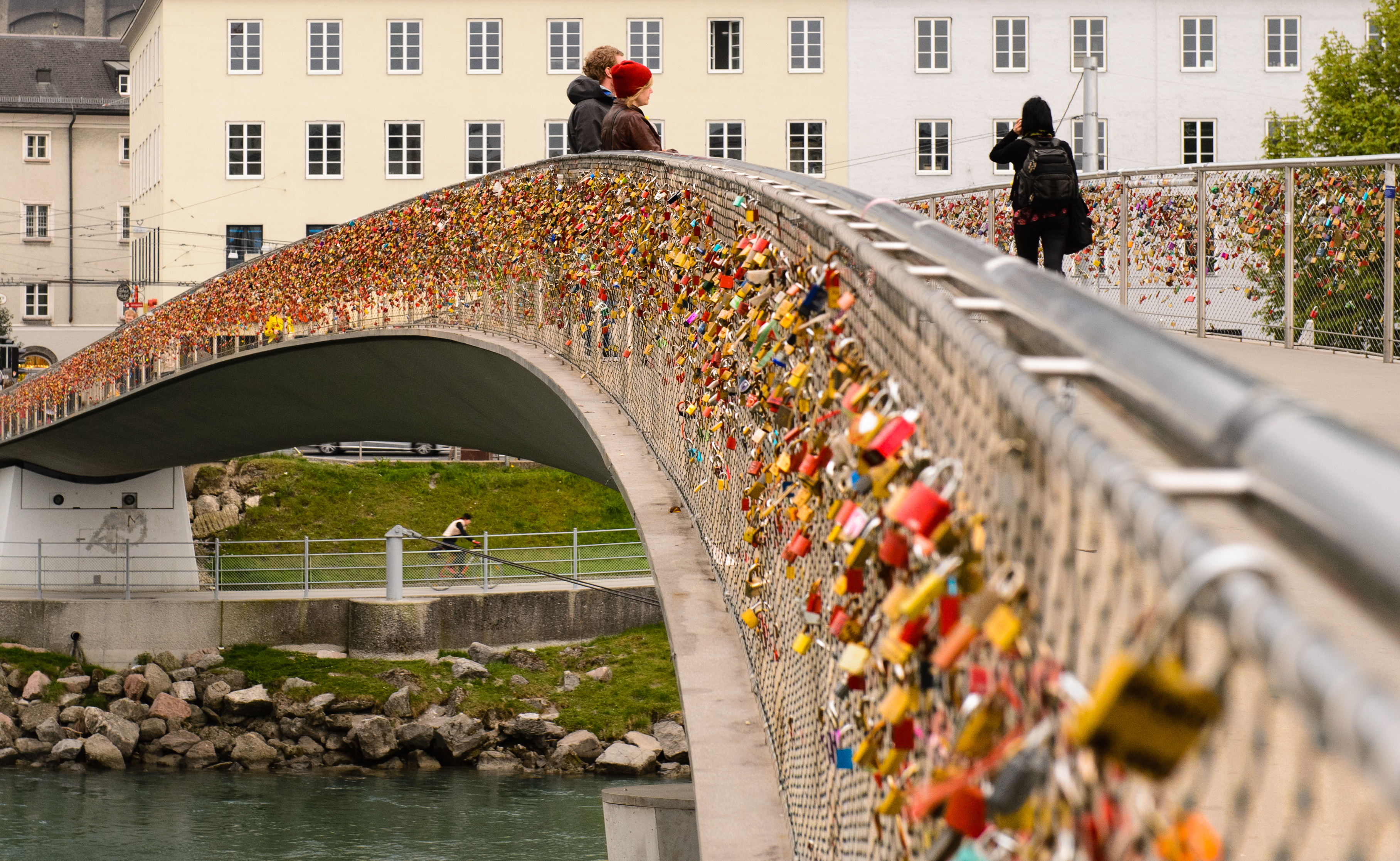 Love locks on the bridge